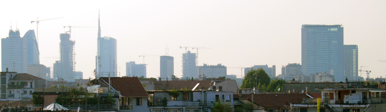 The Milan Skyline, stretching from Torre Garibaldi on the left to the Pirelli Skyscraper on the right.